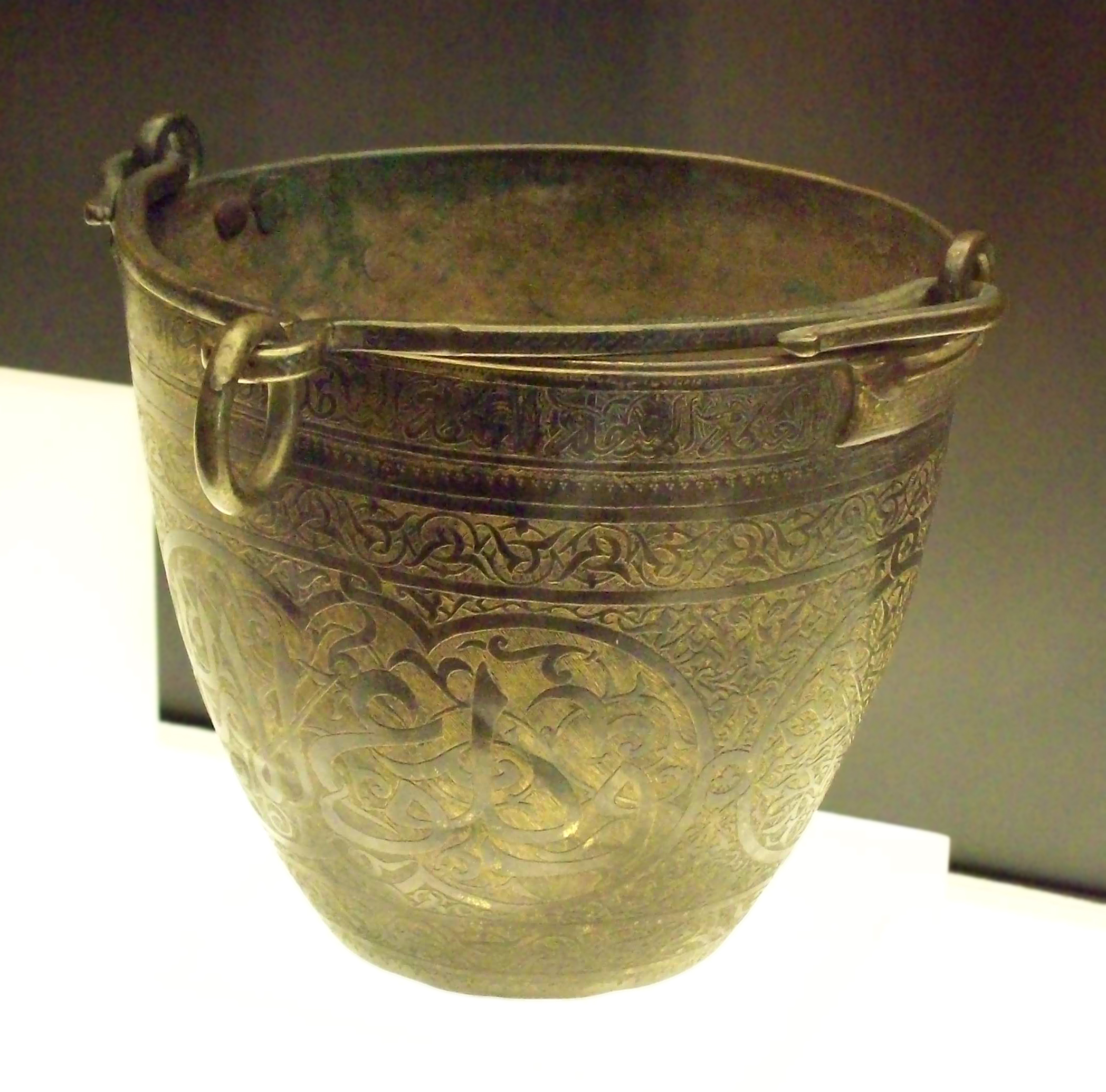 A Nasrid situla.